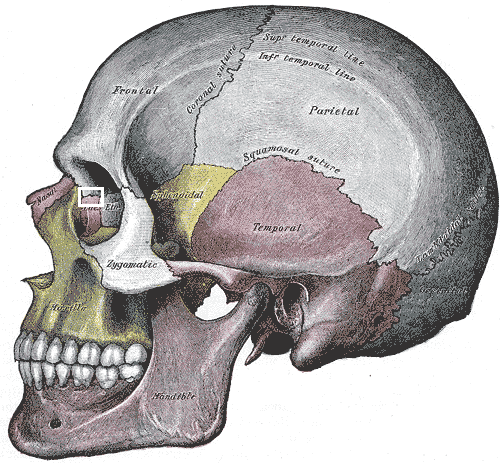 Side view of the skull.